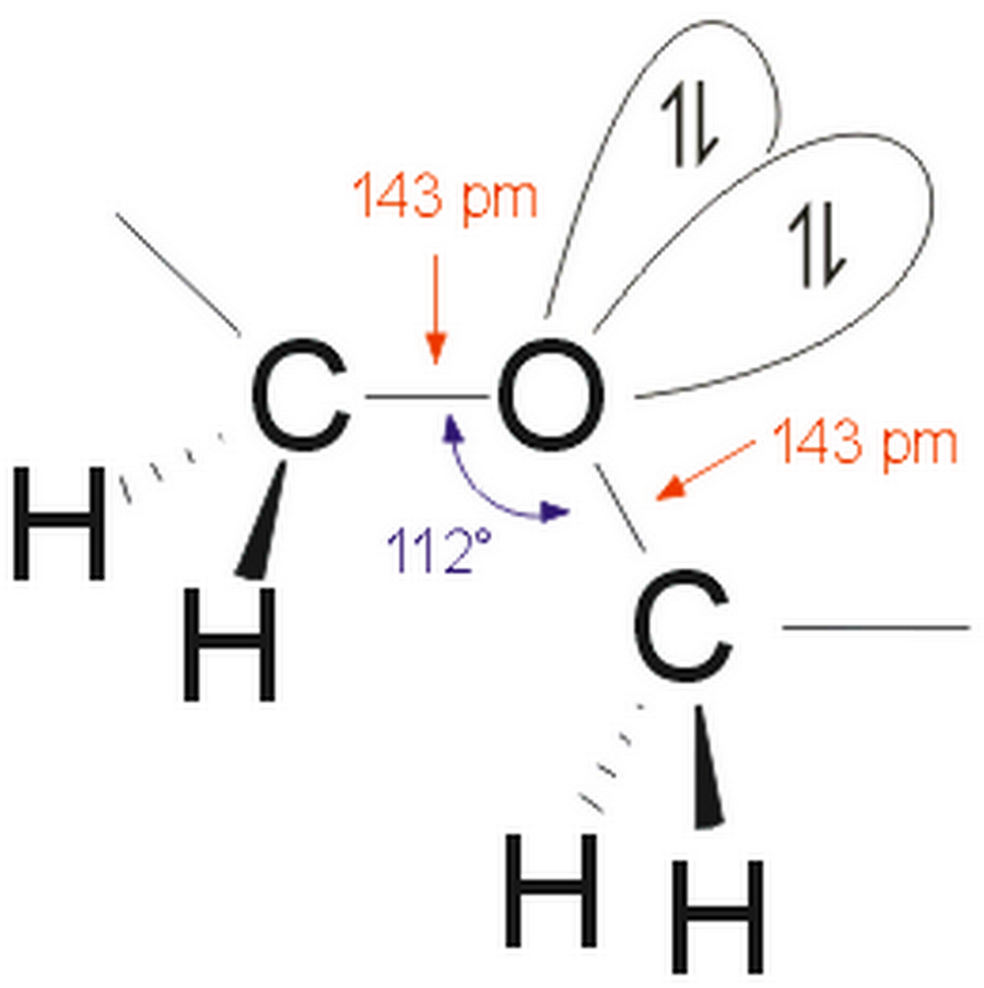 Source: Selbst erstellte Grafik / self made picture (ISIS-Draw) Author: Cvf-ps